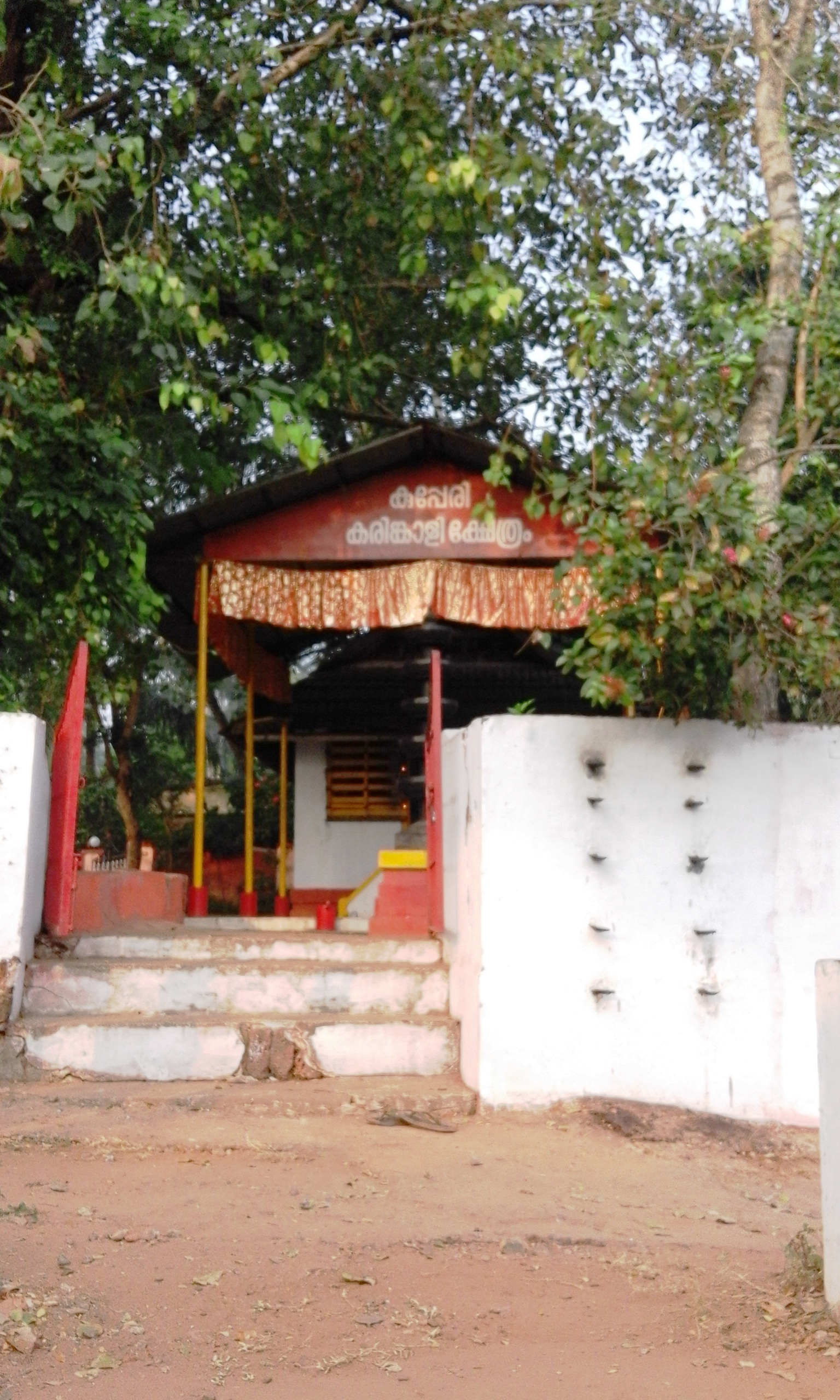 Kozhikode District, Kerala province, India.